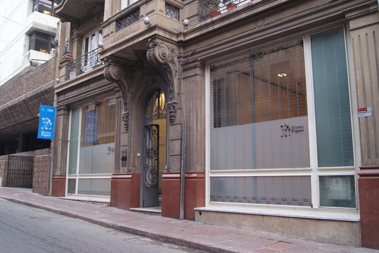 Museo Figari, Montevideo